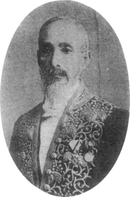 Iwasaki Yukichika, former director of the Seventh Higher School.